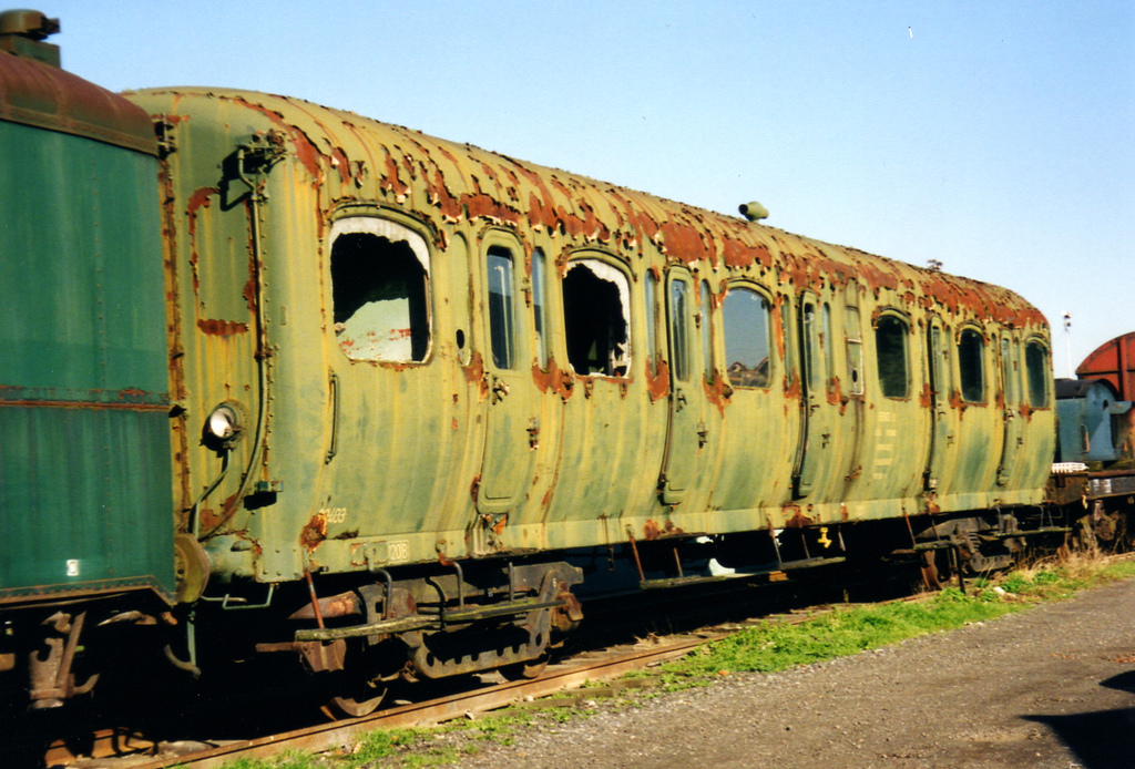 Old railcar of the former private railway Nord-Belge. It have been a part of collection of Stoomspoorlijn Dendermonde-Puurs (steamrailway Dendermonde-Puurs) heritage railway in Belgium, but later this car was scrapped beacause its condition was considered to bad for restauration. I guess I took this photo in 2002 or 2003.